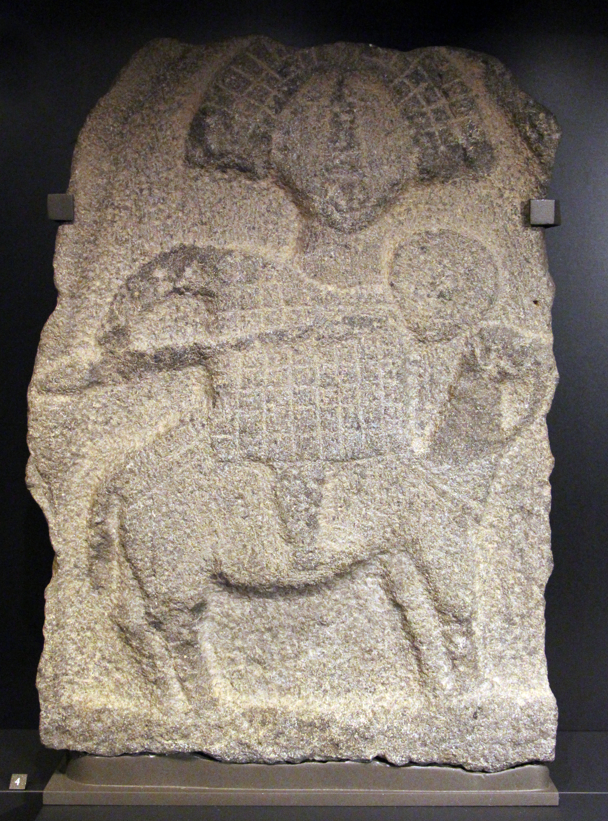 East Mediterranean in the Roman Empire antiquities in the Louvre